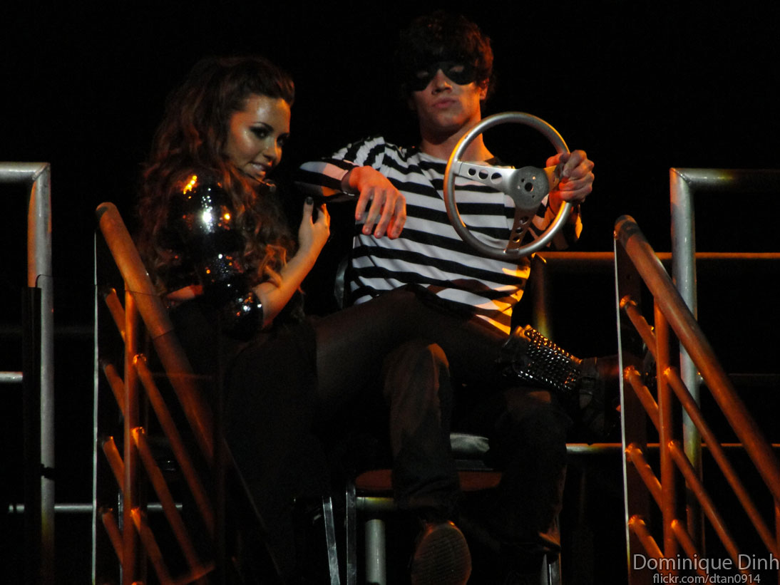 Demi Lovato performing "Hold Up" at Club Nokia in Los Angeles.